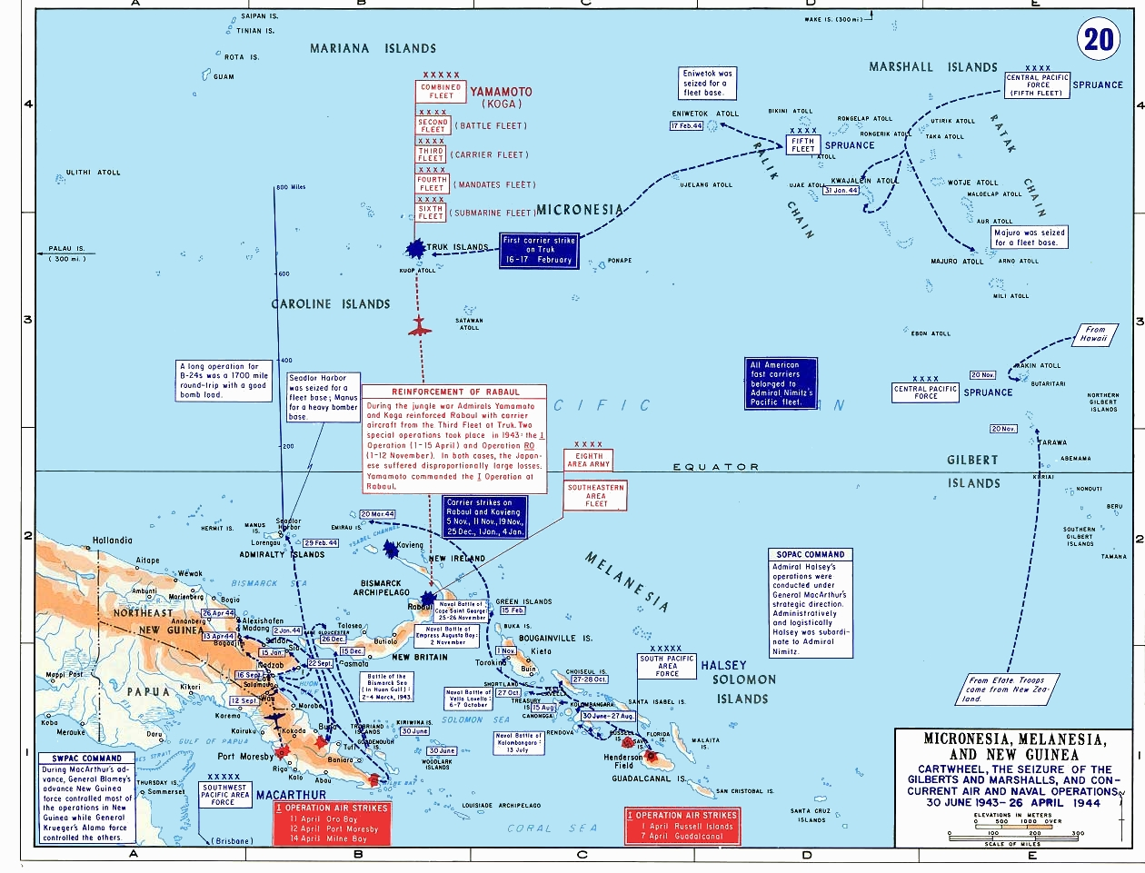 Operation Cartwheel - 30 June 1943 to 26 April 1944